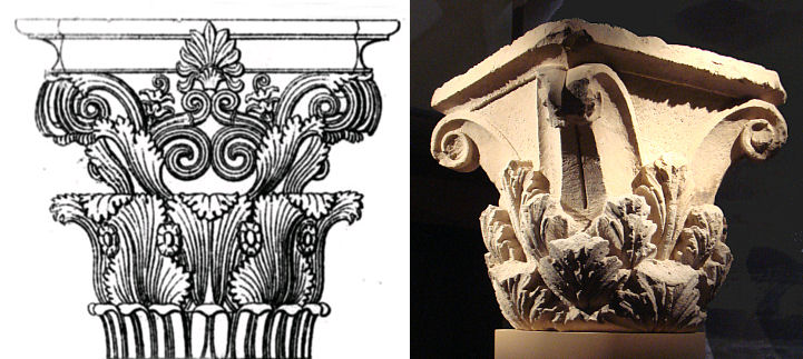 Original Corinthian capital from the Choragic Monument of Lysicrates in Athens 335 BCE on the left versus the Ai Khanoum capital on the right